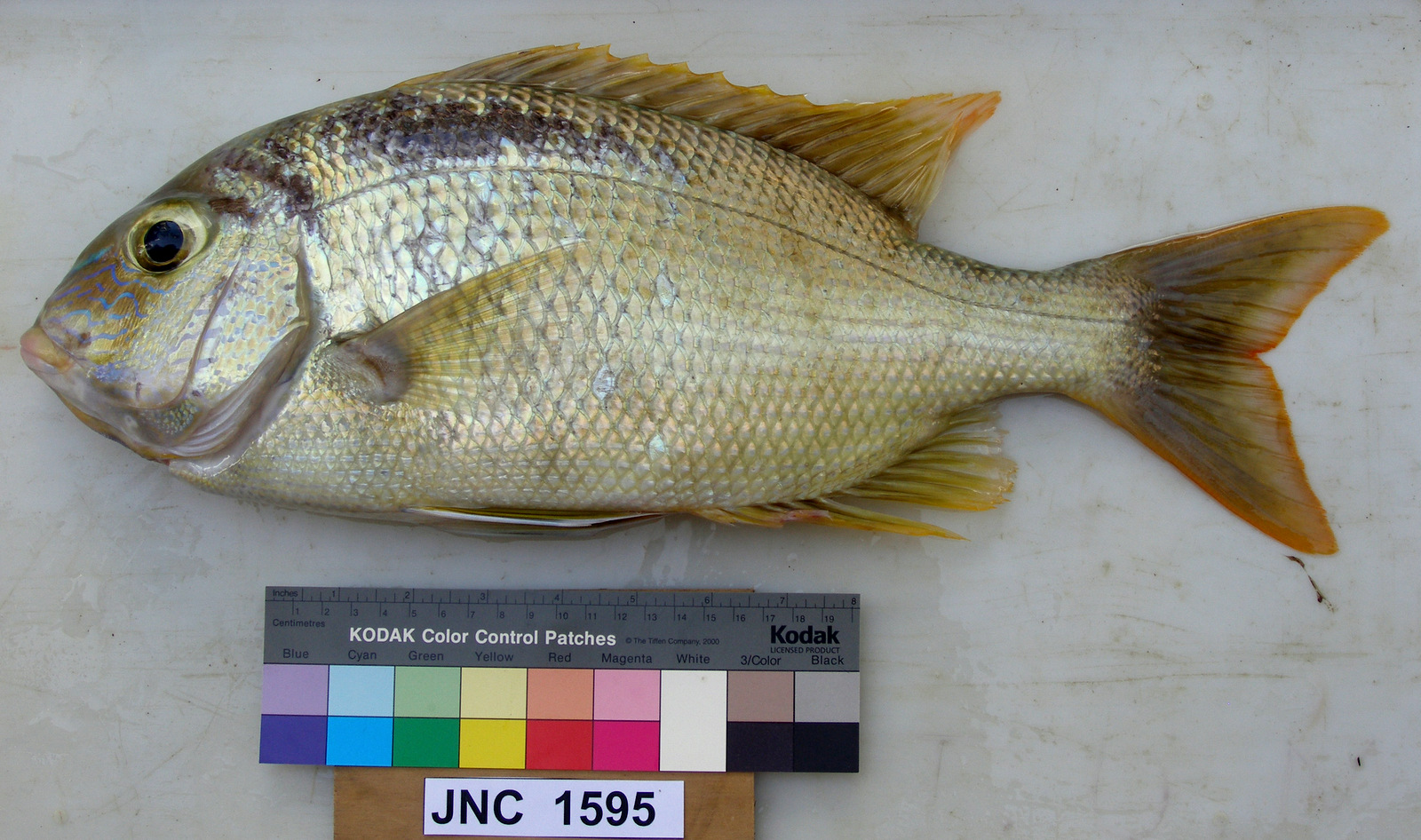 Gymnocranius oblongus Borsa, Béarez & Chen, 2010 from off New Caledonia. Parasitological number MNHN JNC1595. Collected near Îlot La Régnière, off Nouméa, New Caledonia, 8 September 2005, coordinates 166°20'E, 22°19'S. Fork Length 420 mm, Weight 1600 g.